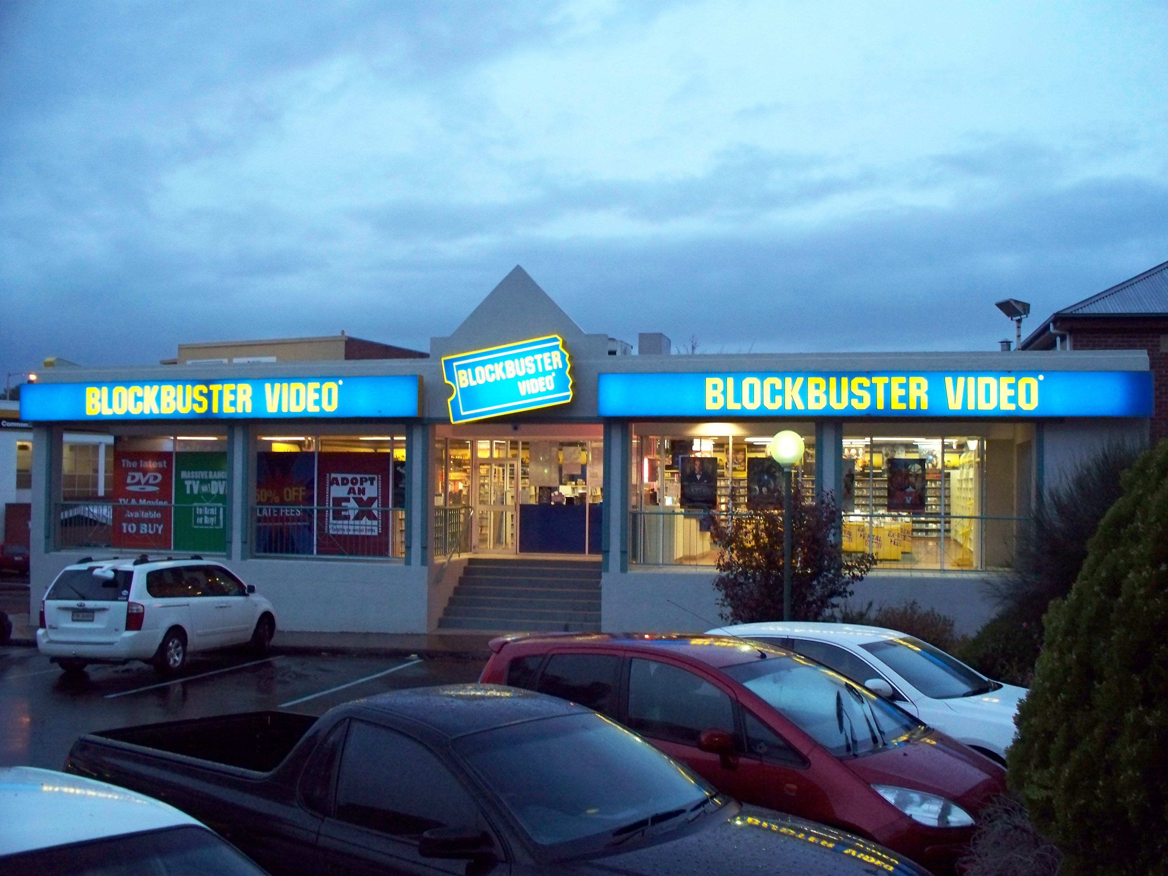 A Blockbuster store in Sandy Bay, an inner-suburb of Hobart, Australia. Other information This picture was taken using a 12MP Kodak EasyShare Z1275 camera.